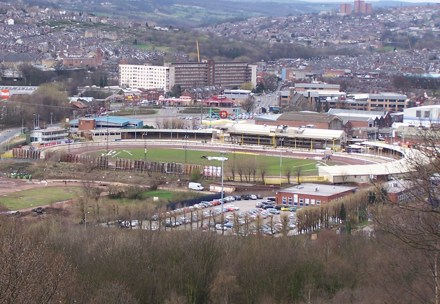 Owlerton Stadium, Owlerton, Sheffield. Seen from Shirecliffe.